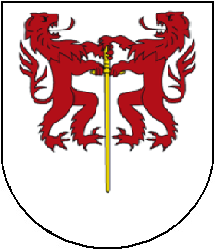 Shield of the District of Conthey, Canton of Valais - Blazono de la Distrikto Conthey, Kantono Valezo